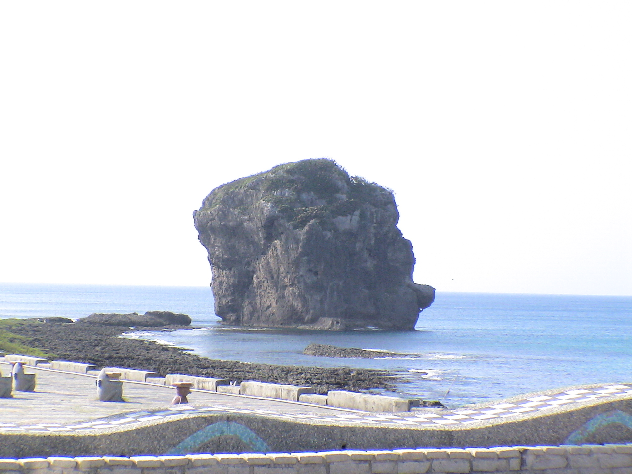 Chuanfan Rock in kenting National Park